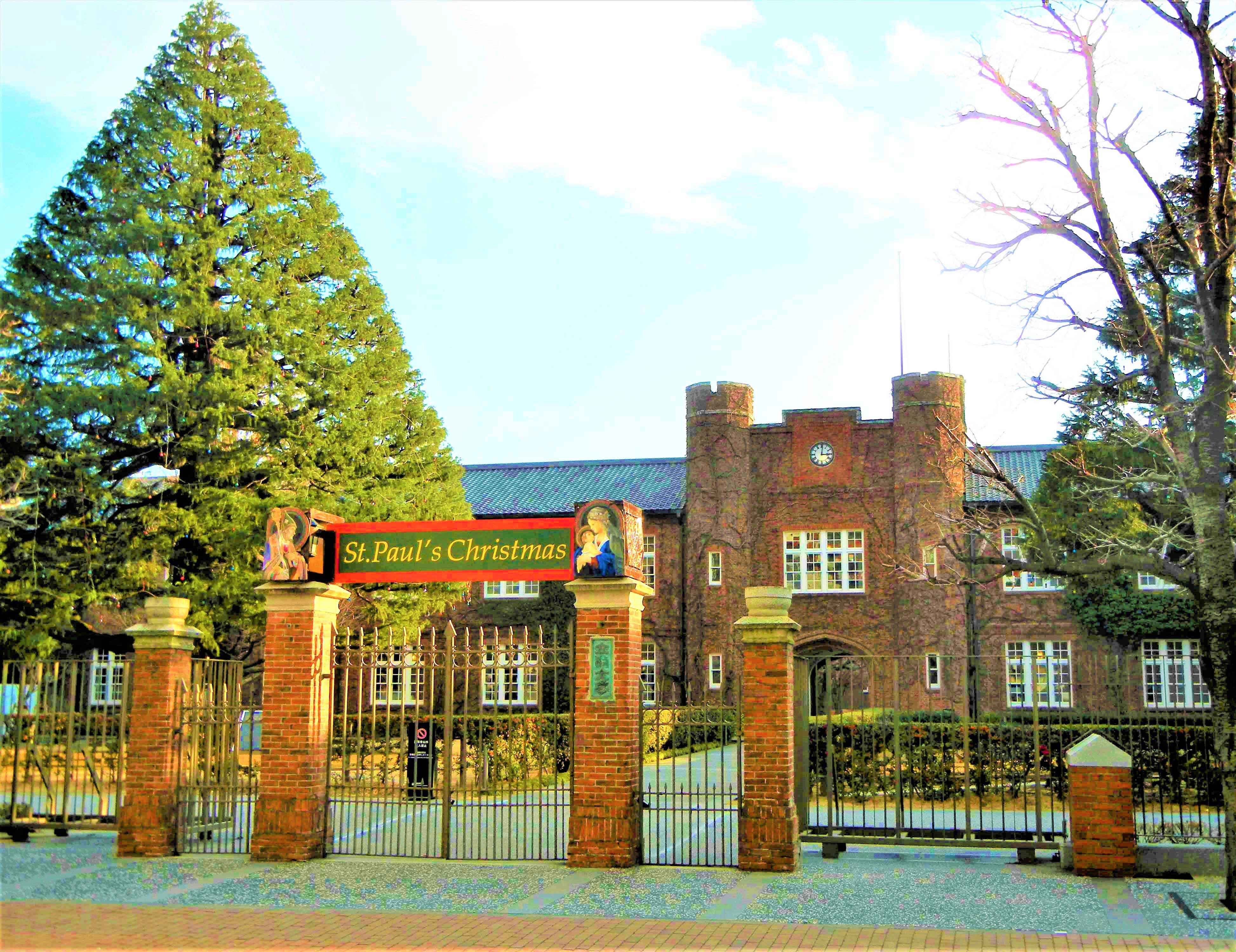 The main entrance of Rikkyo University Ikebukuro campus